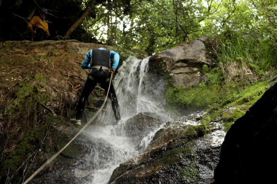 Canyoing at Sundarijal, Kathmandu By:Srijesh Gautam